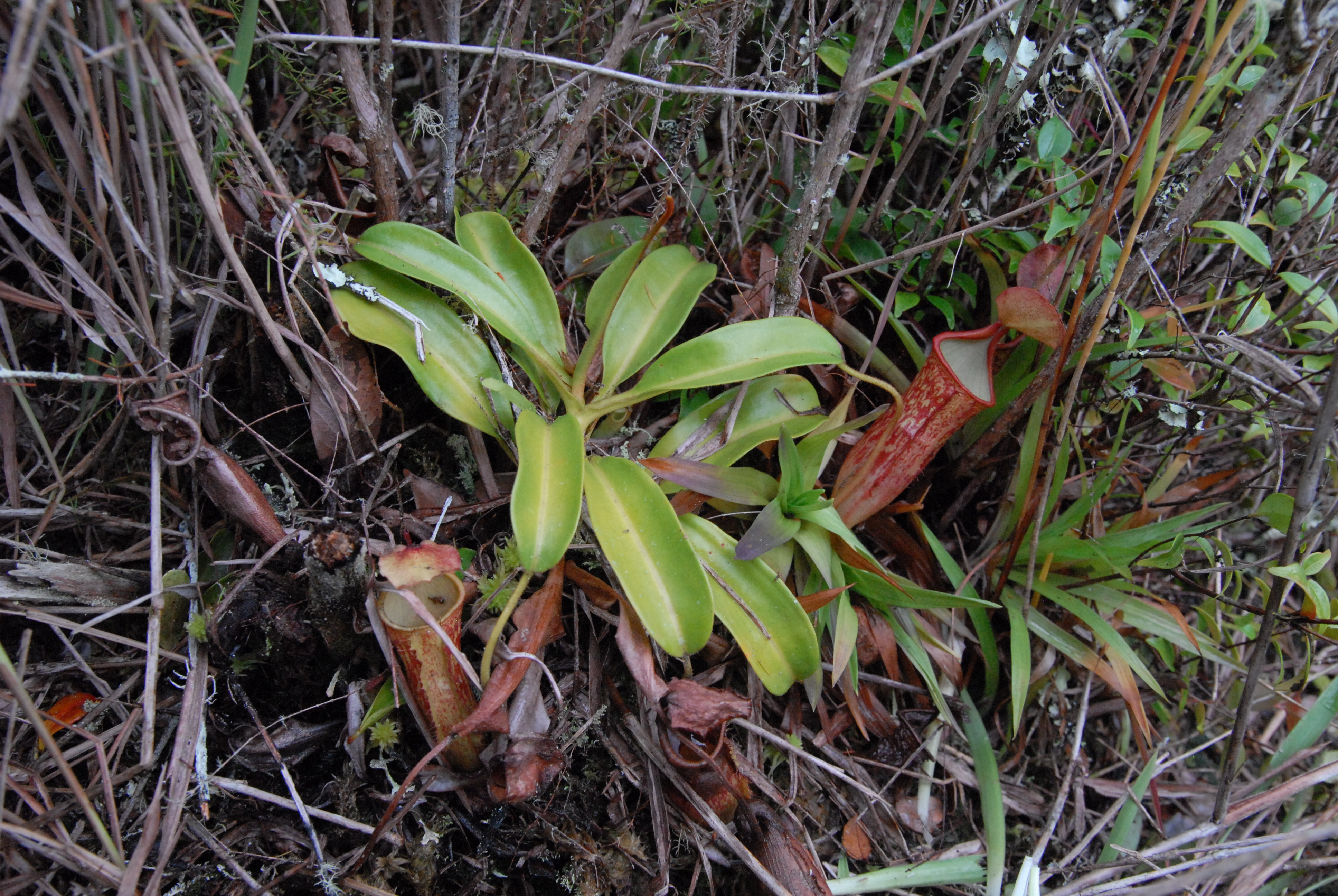 Nepenthes oblanceolata from near Wamena, Baliem Valley, New Guinea (sometimes regarded as a synonym of N. maxima)